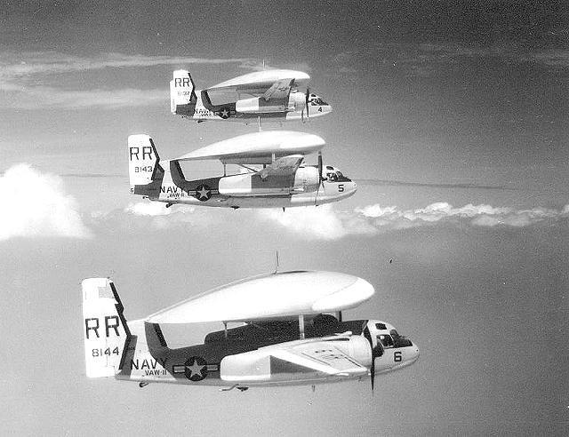 Three U.S. Navy Grumman E-1B Tracer (BuNo 148137, 148143 and 148144) of Carrier Airborne Early Warning Squadron 11 (VAW-11) "Early Eleven" in flight. VAW-11 with its tail code "RR" was deployed from 1959 to 1967 on the Essex-class carriers of the U.S. Pacific Fleet. Each Carrier Air Wing of Carrier Anti-Submarine Air Group was assigned a detachment of three to four aircraft.